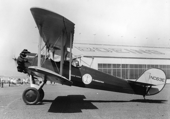 Boeing 81B with Wright J-6-5 installed